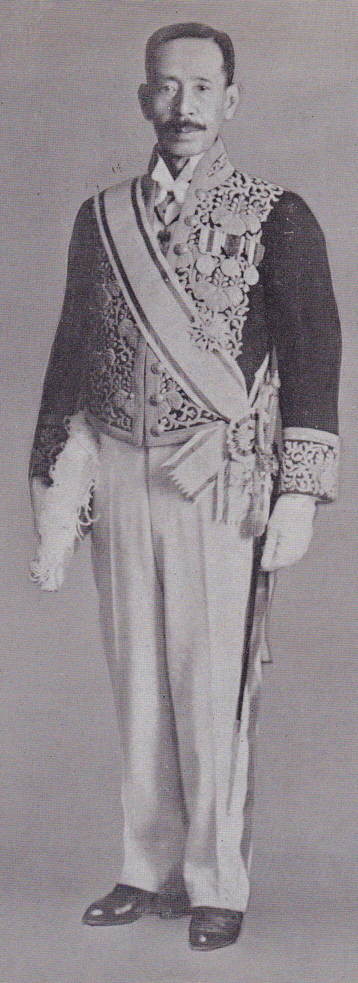 Gizō Kasuya(1966 - 1930).